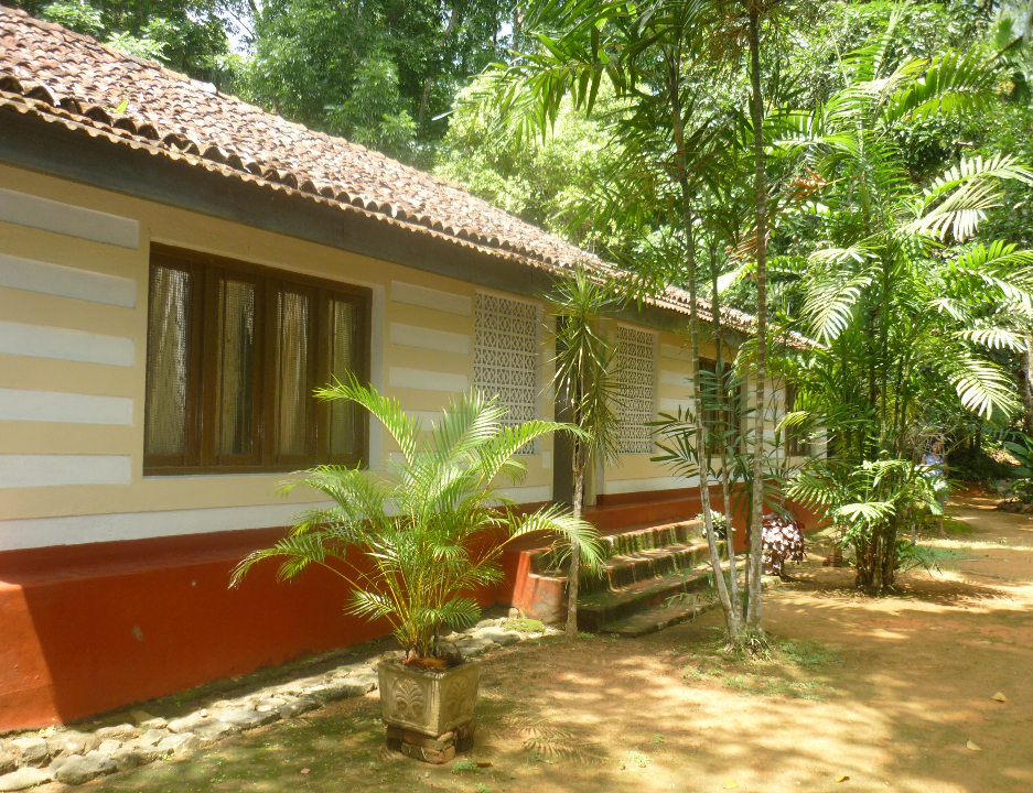 Front view of Athurupana Walawwa